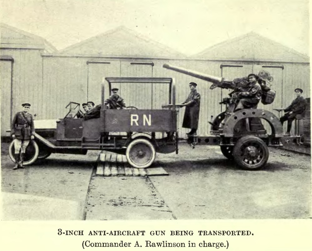 Photograph of British QF 3 inch 20 cwt anti-aircraft gun on cruciform travelling platform being towed by a lorry.